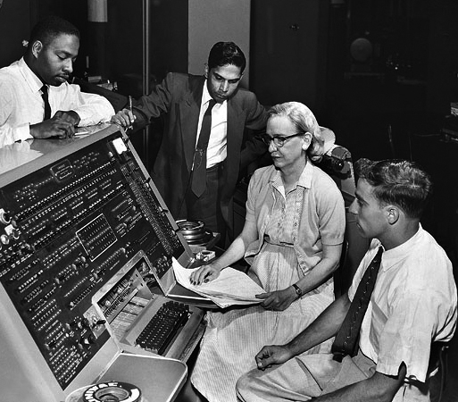 SI Neg. 83-14878. Date: na...Grace Murray Hopper at the UNIVAC keyboard, c. 1960. Grace Brewster Murray: American mathematician and rear admiral in the U.S. Navy who was a pioneer in developing computer technology, helping to devise UNIVAC I. the first commercial electronic computer, and naval applications for COBOL (common-business-oriented language).